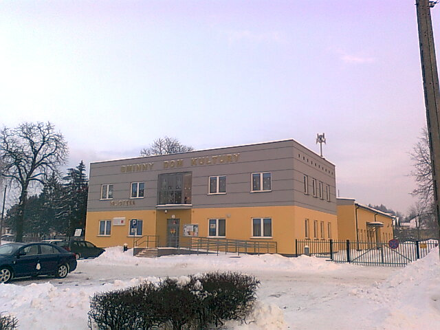 Cultural center in Zakrzówek (January 2013)